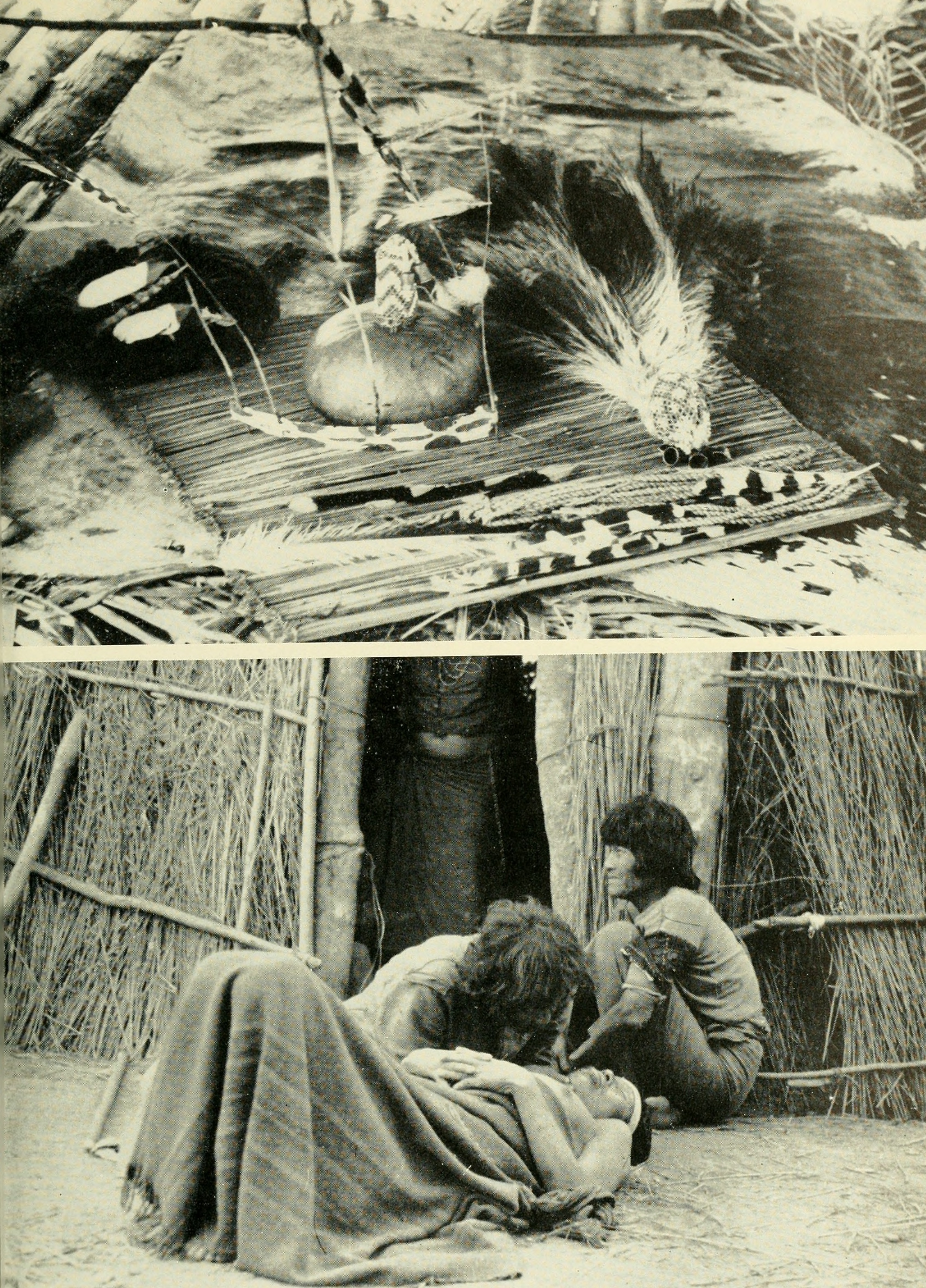 Title: Bulletin Year: 1901 (1900s) Authors: Smithsonian Institution. Bureau of American Ethnology Subjects: Ethnology Publisher: Washington : G. P. O. Text Appearing Before Image: ' Text Appearing After Image: Plate 73.-Chaco shamanism. Top: Caduveo shaman's outfit. (Courtesy Claude Levi-Strauss.) Bottom: Pilagá shaman blowing on sick person. (Courtesy Alfred Metraux.)